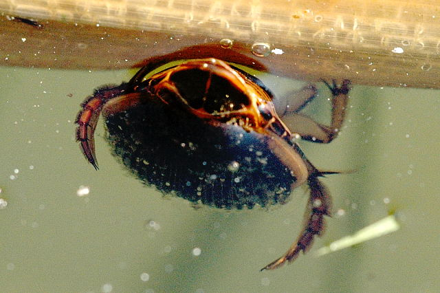 Picture taken in Commanster, Belgian High Ardennes . Species: Dytiscus marginalis